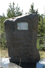 the 1999 stone memorial where the last shots were fired in battle on Swedish soil: the Battle of Pitsund (sometimes called the Battle of Piteå) in the Finnish War of 1808-1809